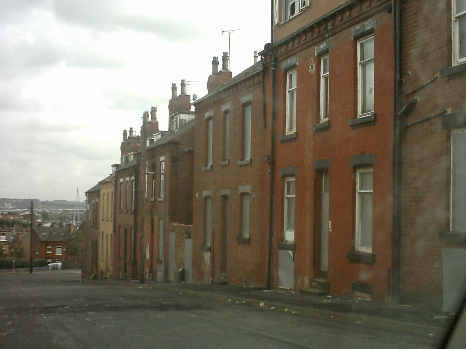 Beverley View, Beeston, Leeds fully boarded up, supposably awaiting redevelopment.